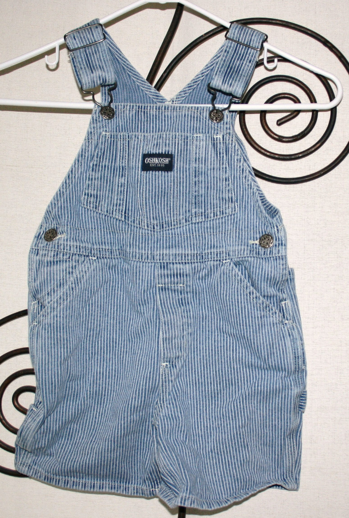 Front view of shortalls in the train engineer style made by Oshkosh